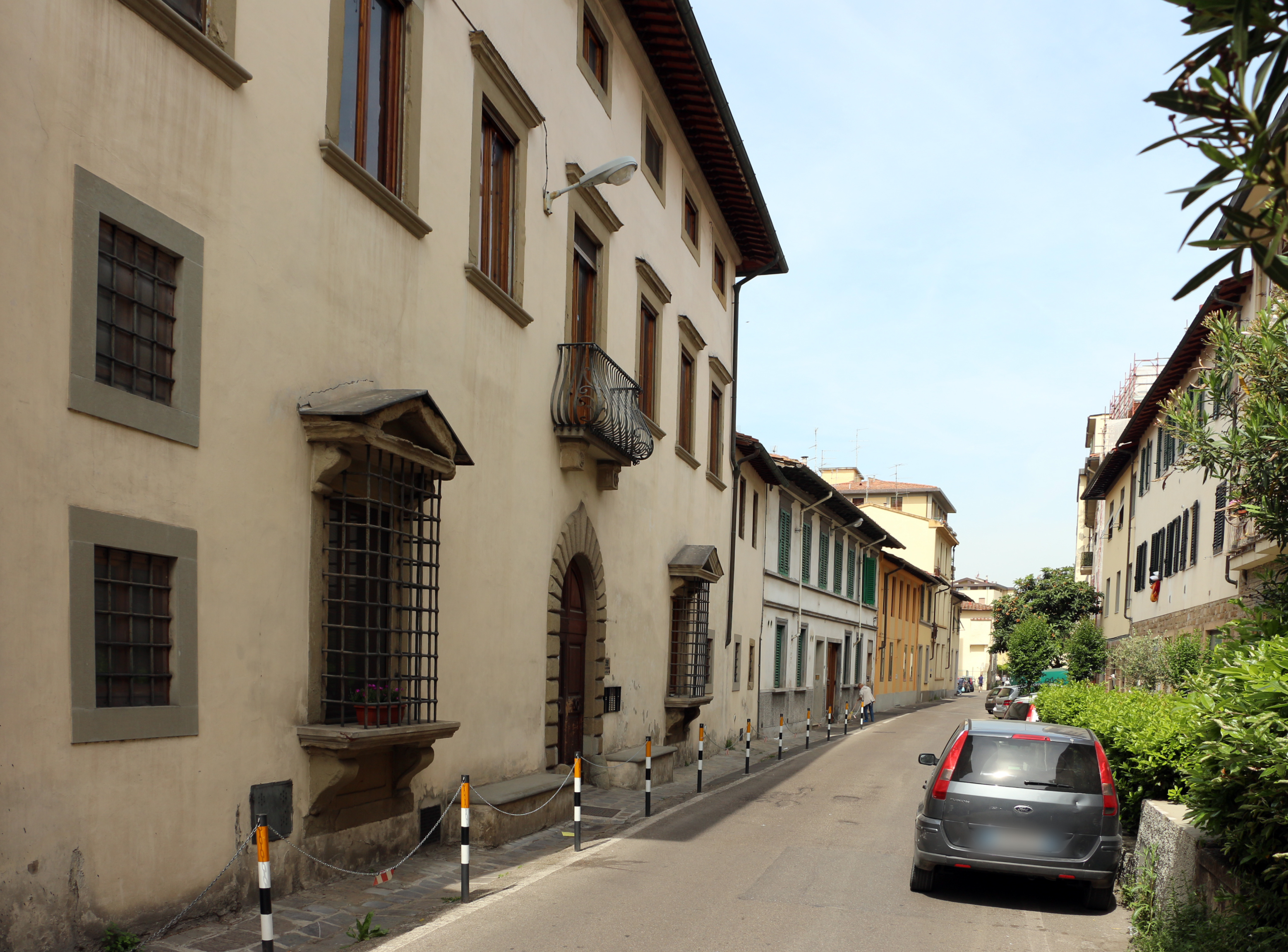 Via del Palazzo dei Diavoli